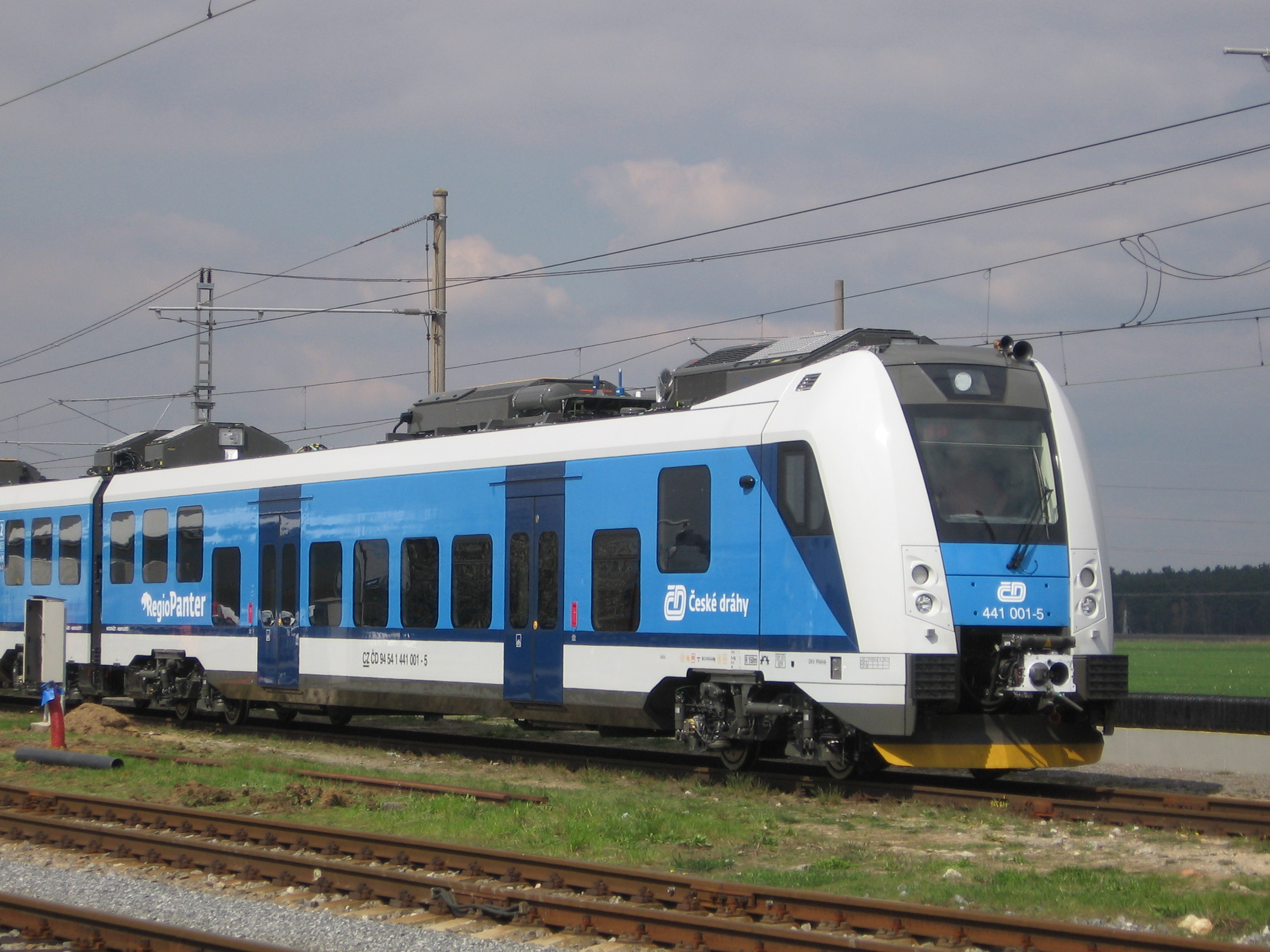 ŠKODA DC EMU Class 441 on the test circuit in Cerhenice